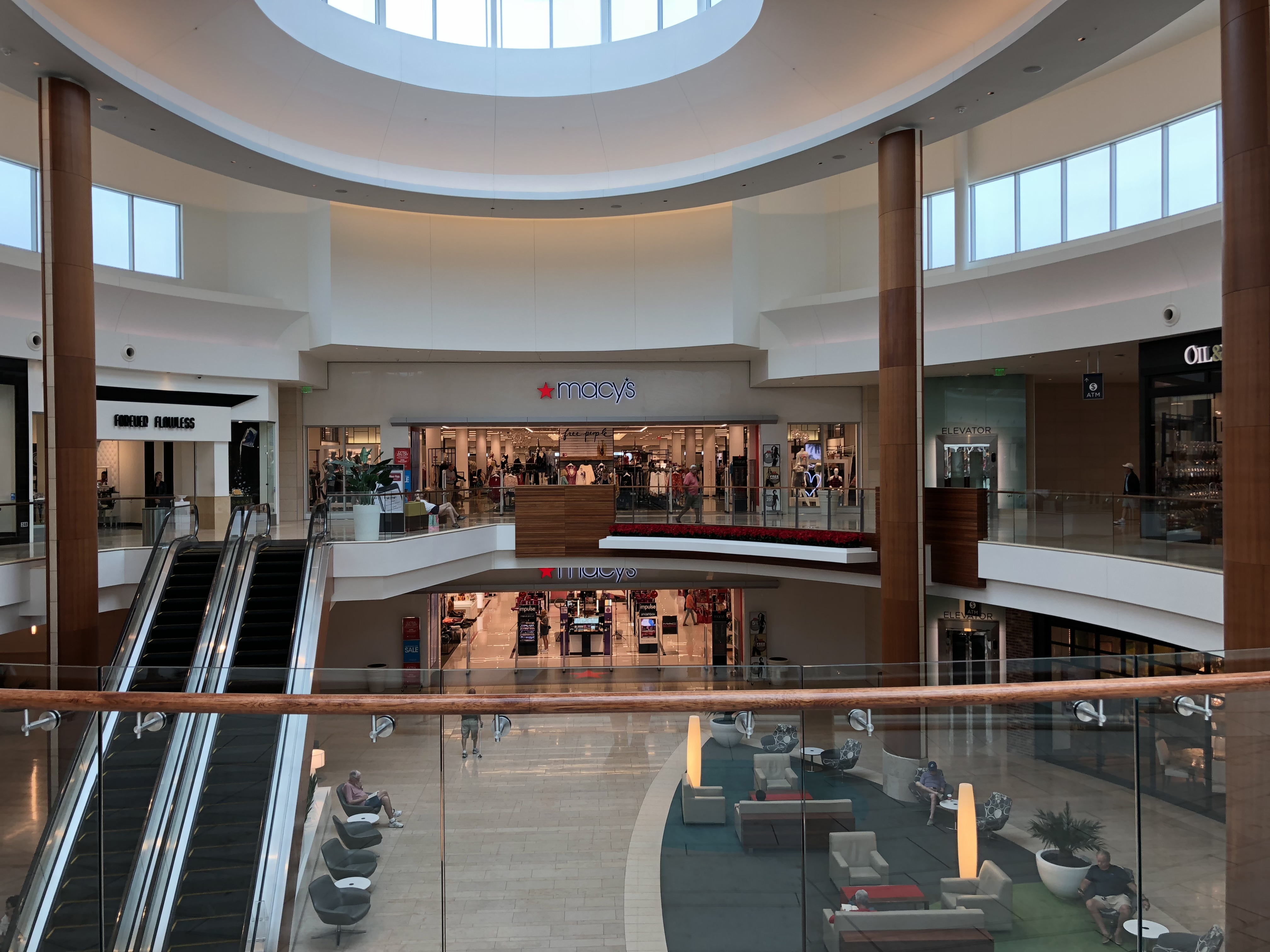 Macy's court at the Mall at University Town Center